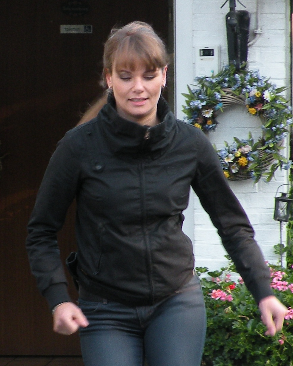 Dutch actress Angela Schijf (as character Eva van Dongen, TV-series: Flikken Maastricht)